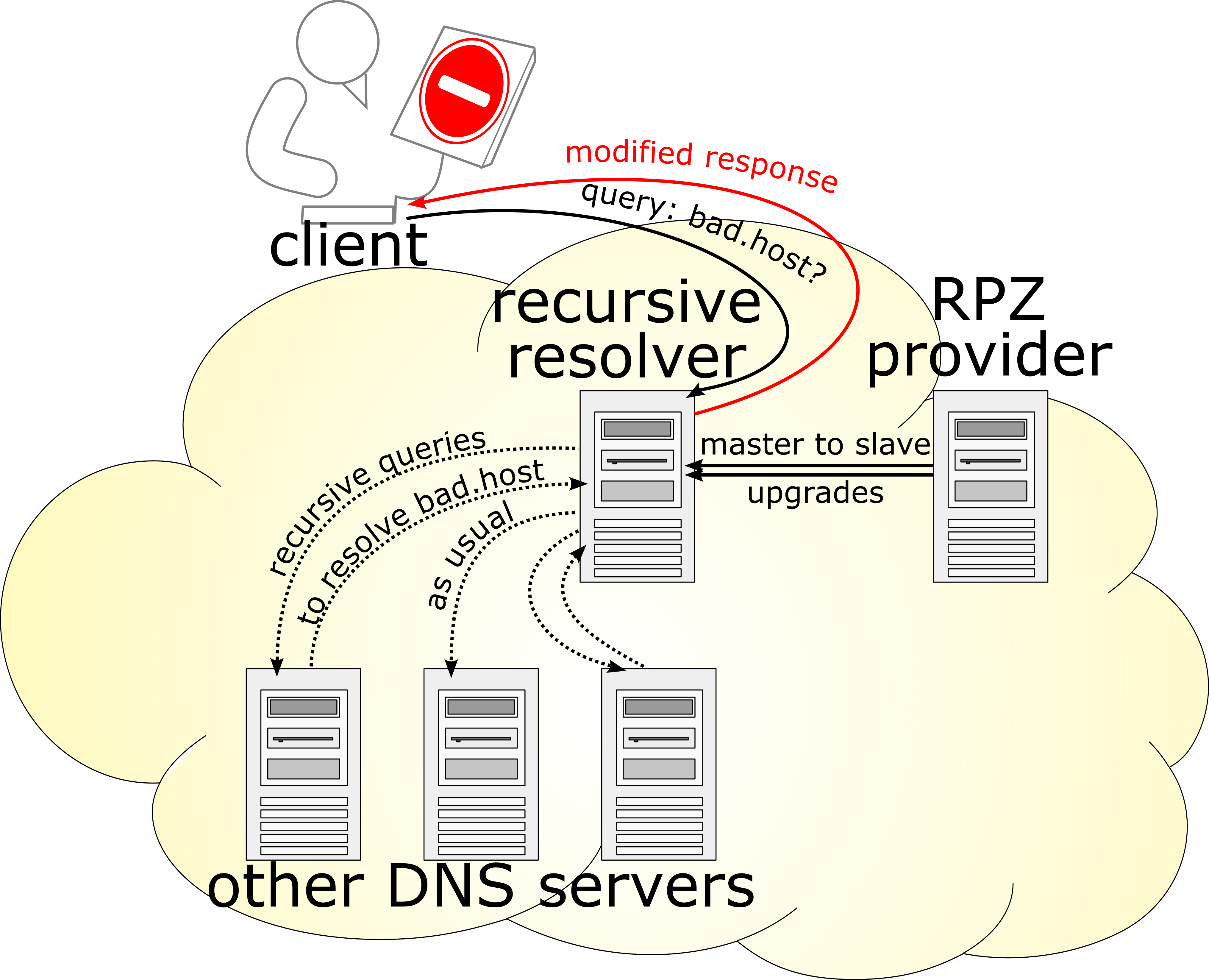 Illustrate DNS Response Policy Zones (RPZ)